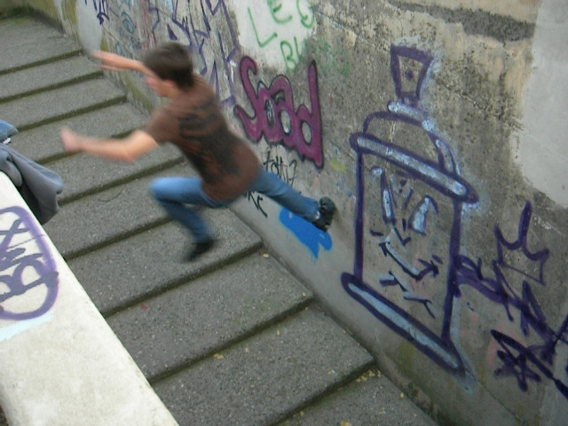 Parkour